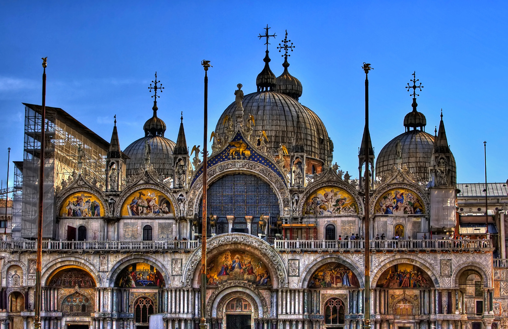 St. Mark's Basilica